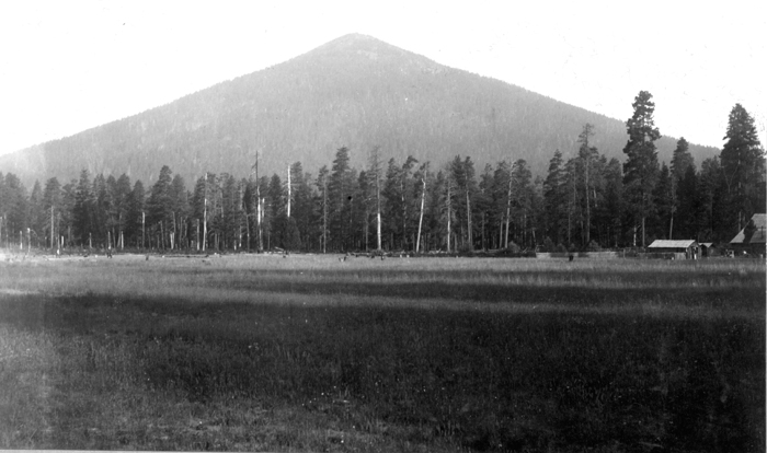 Black Butte, near Sisters, Crook County, Oregon. 1903. Plate 14-A in U.S. Geological Survey. Bulletin 252.